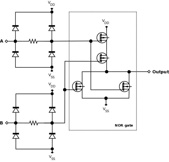 unbuffered CMOS two input NOR gate